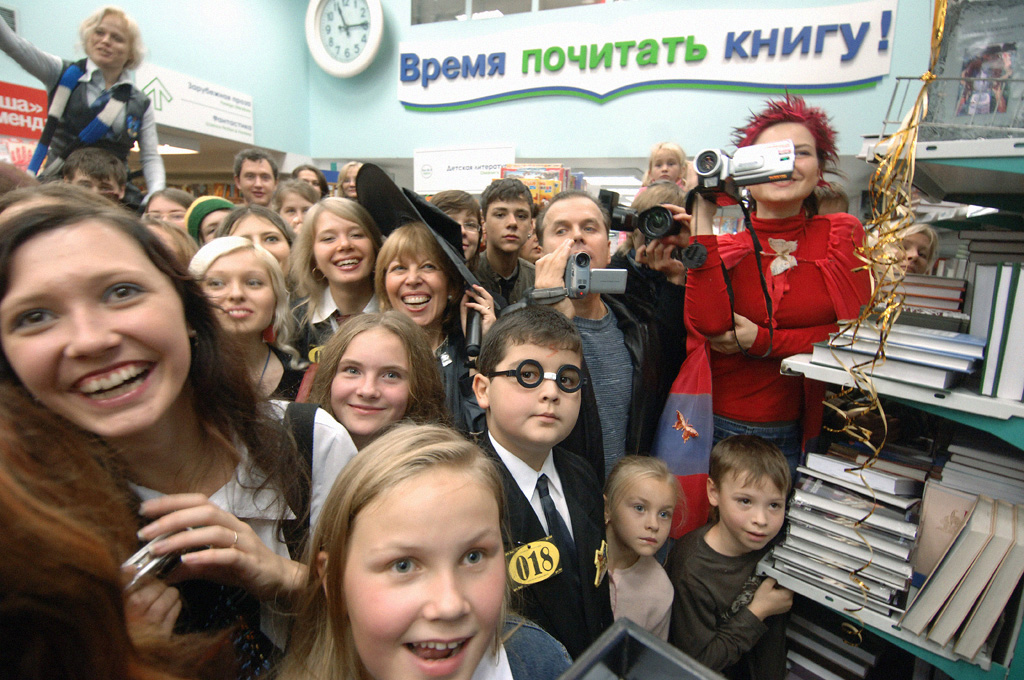 “The seventh book about Harry Potter goes on sale”. The seventh book about Harry Potter in a Russian translation "Harry Potter and the Gift of Death" went on sale at the bookstore "Moskva" in Moscow on October 13.